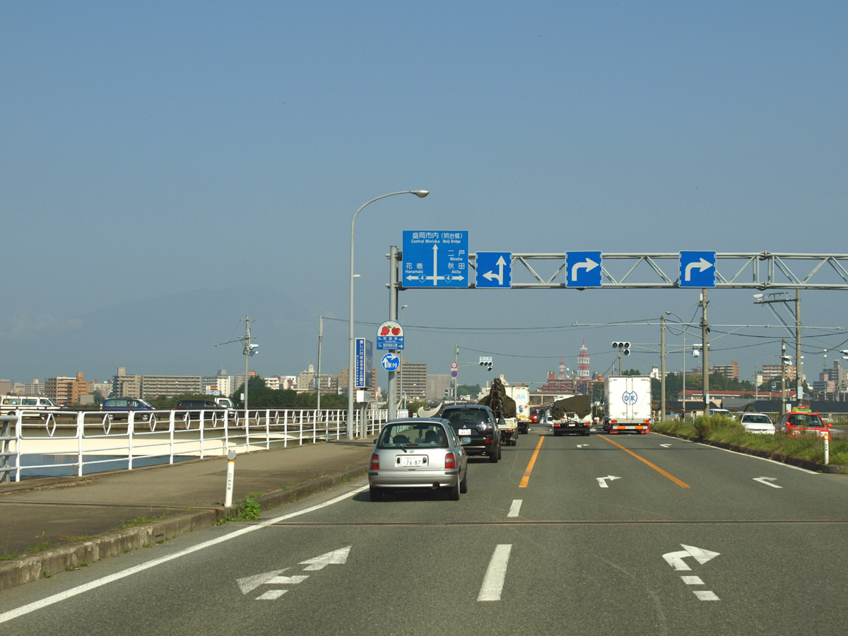 The end of Route 396 where it joins Route 4 in Morioka, Iwate Prefecture, Japan. The large sign shows that Route 4 leads to Hanamaki to the south and to the north Ninohe and Akita. The road straight ahead leads to central Morioka and the Meiji Bridge. Barely isible in the distance is Mt. Iwate, nearer and straight ahead are the towers atop the NTT building in the downtown area. The Minami Ohashi bridge is just to the left crossing the Kitakami River.